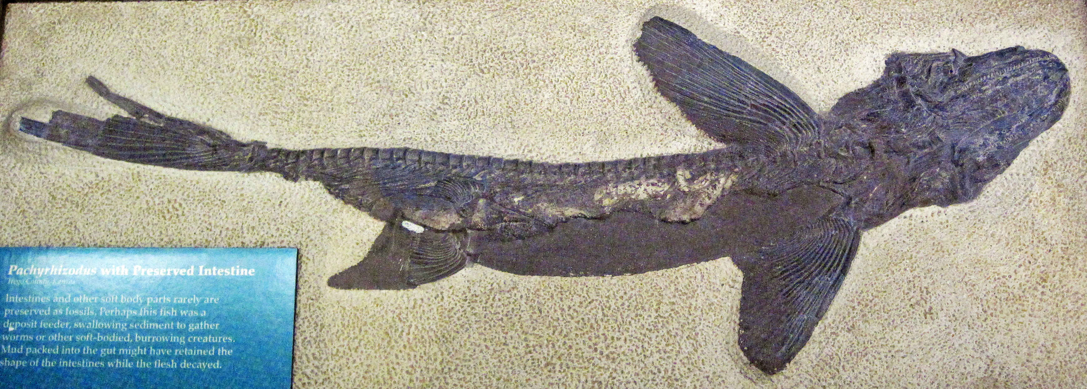 Pachyrhizodus sp. - fossil fish from the Cretaceous of Kansas, USA. (public display, Sternberg Museum of Natural History, Hays, Kansas, USA) From museum signage: Pachyrhizodus with Preserved Intestine Intestines and other soft body parts rarely are preserved as fossils. Perhaps this fish was a deposit feeder, swallowing sediment to gather worms or other soft-bodied, burrowing creatures. Mud packed into the gut might have retained the shape of the intestines while the flesh decayed. Classification: Animalia, Chordata, Vertebrata, Osteichthyes, Actinopterygii, Elopiformes, Pachyrhizodontidae Stratigraphy: Niobrara Formation (probably the Smoky Hill Chalk Member), Upper Cretaceous Locality: Trego County, western Kansas, USA